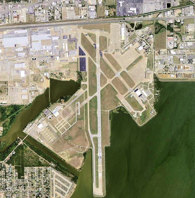 USGS digital orthophoto of Naval Air Station Dallas in Texas